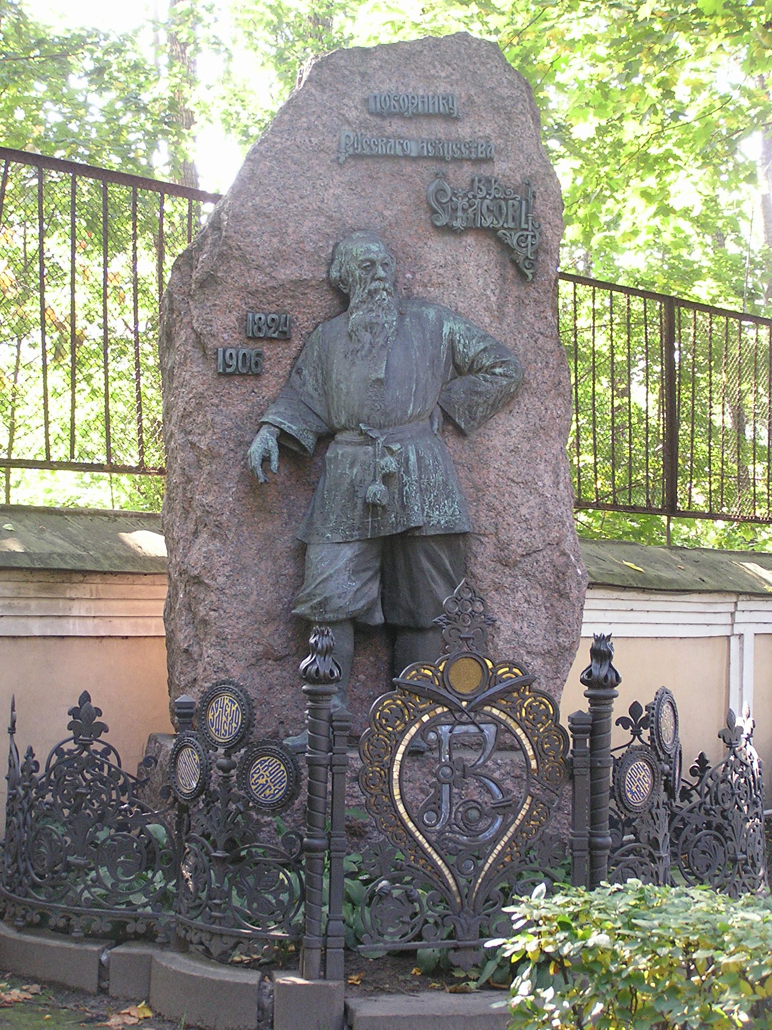 Vladimir Stasov (1824-1906) grave on the Tikhvin Cemetery of Alexander-Nevsky Lavra